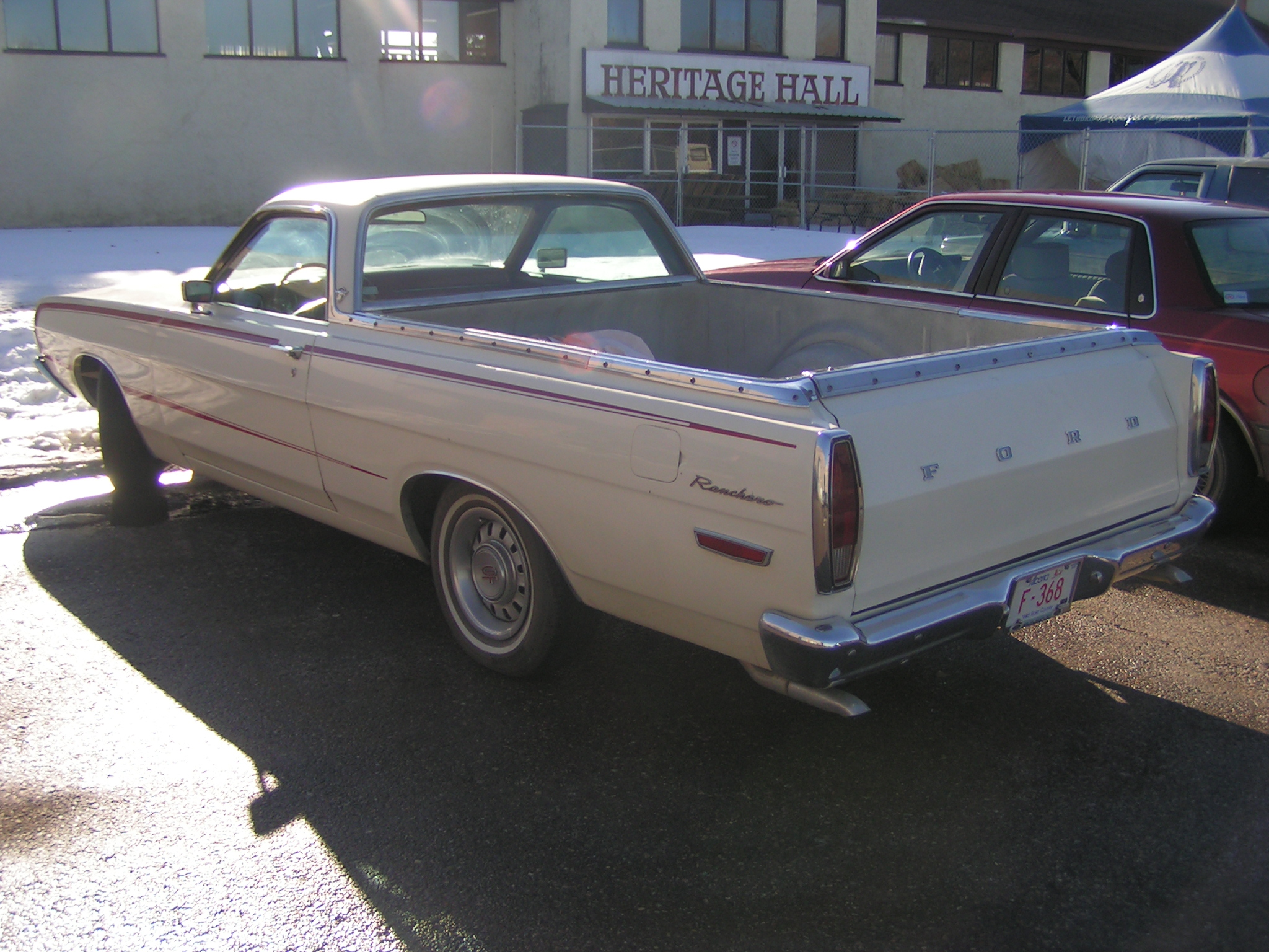 1968 Ford Ranchero